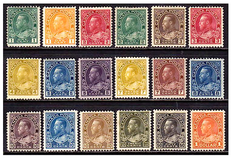 Canada Postage stamps, KGV, 1911-1931 issues, full set